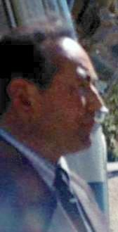 M. M. Adyshev at a conference to mark the 30th anniversary of the Tian Shan Physics and Geography Station, Pokrovka village, Kyrgyz SSR.